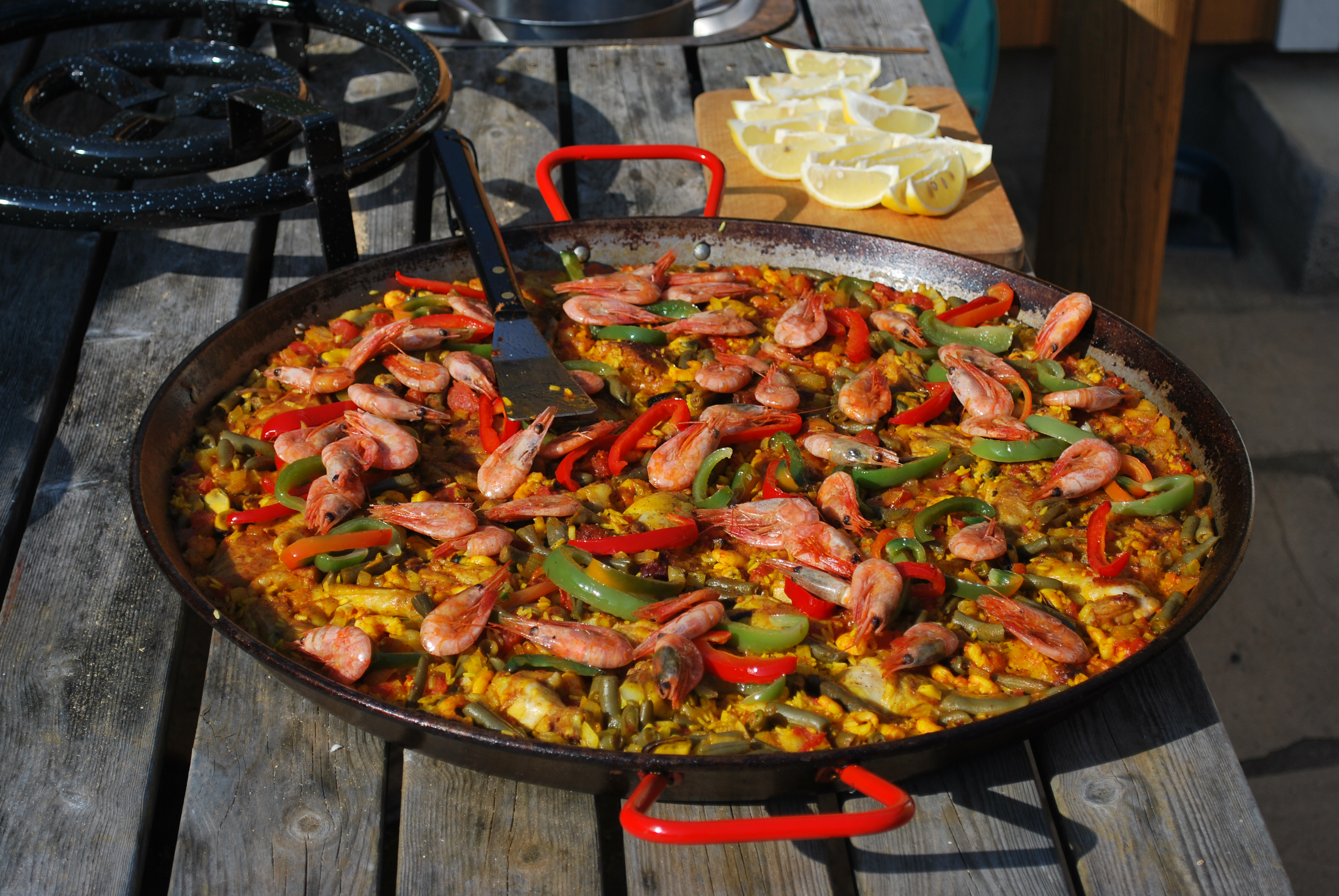 Paella